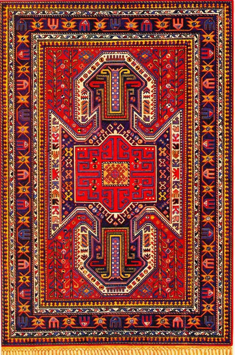 Borchali rug, Kazakh school, XIX c.